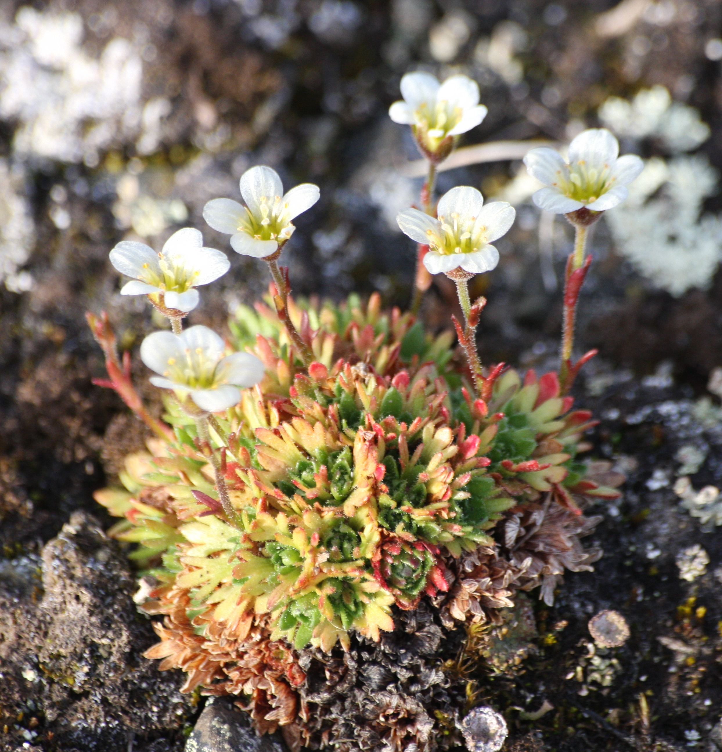 Photo from Gruve 1 fjellet, west of Longyearbyen, Svalbard.